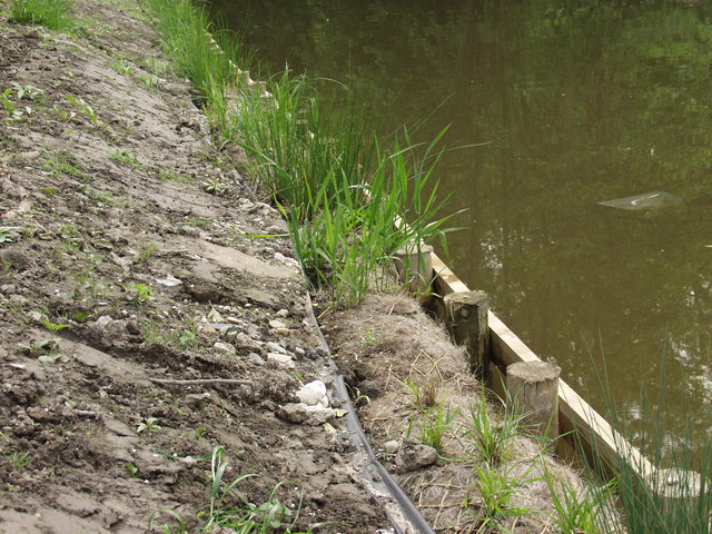 Bank protection on the Llangollen Canal This is another way of mending bank erosion. The wooden barrier protects a coir (Coconut fibre) sausage which has soft rush planted in it.